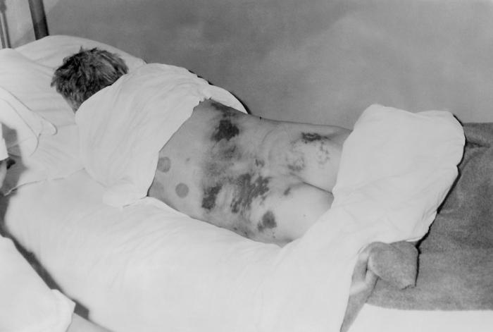 Isolated male patient diagnosed with Crimean-Congo hemorrhagic fever (C-CHF). Crimean-Congo Hemorrhagic Fever is a tickborne hemorrhagic fever with documented person-to-person transmission, and a case-fatality rate of approximately 30%. This widespread virus has been found in Africa, Asia, the Middle East, and eastern Europe.